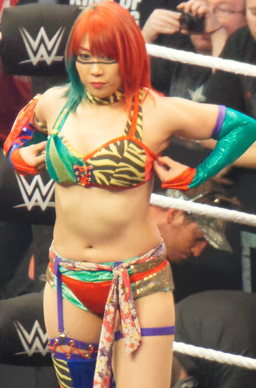 Asuka during the NXT Takeover: Dallas event in April 1, 2016.